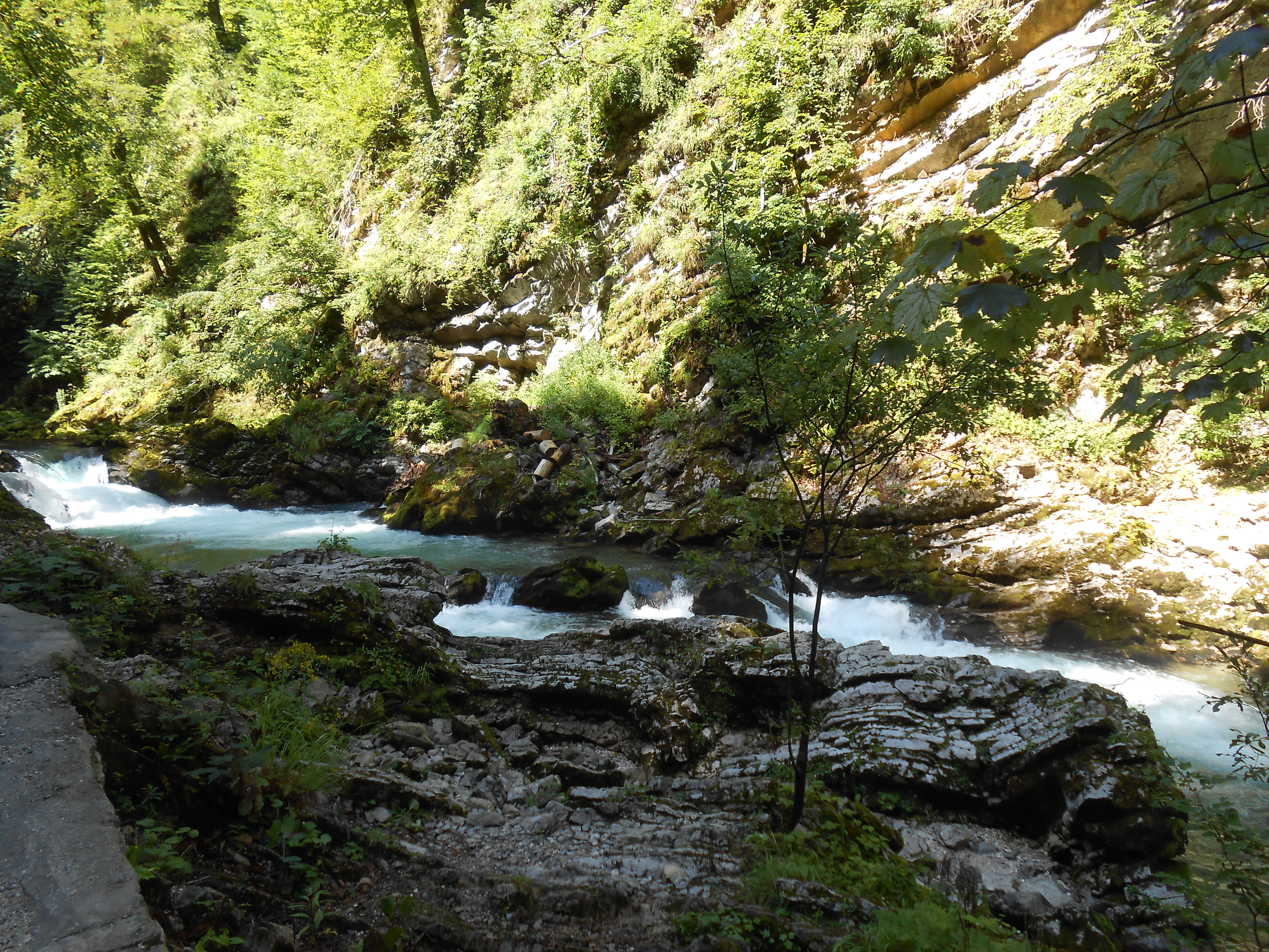 Vintgar, Radovna River Gorge, near Bled, Slovenia